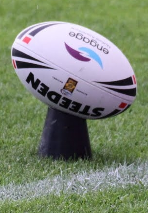 A rugby league match ball mounted on a kicking tee, used for the Super League XVI fixture of Catalans Dragons vs Wigan Warriors at the Stade Yves-du-Manoir in Montpellier